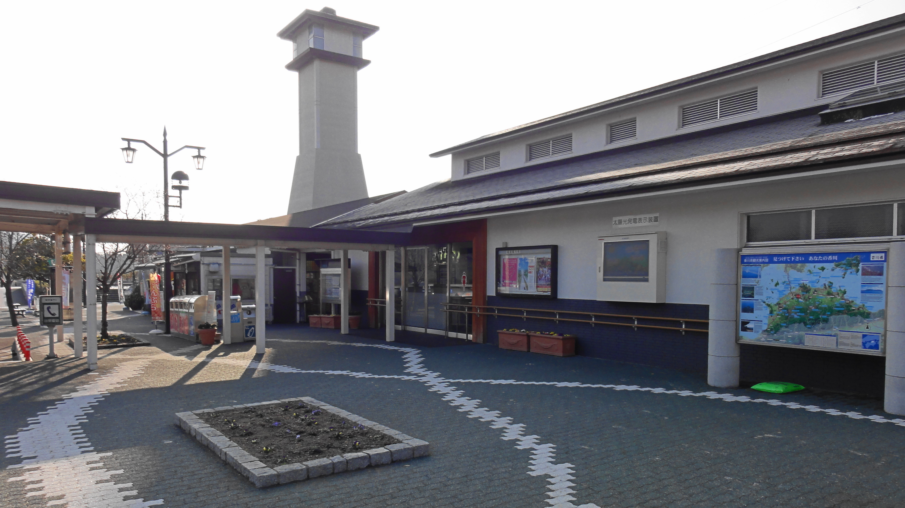 Futyuuko Parking Area,Kagawa pref..,Japan